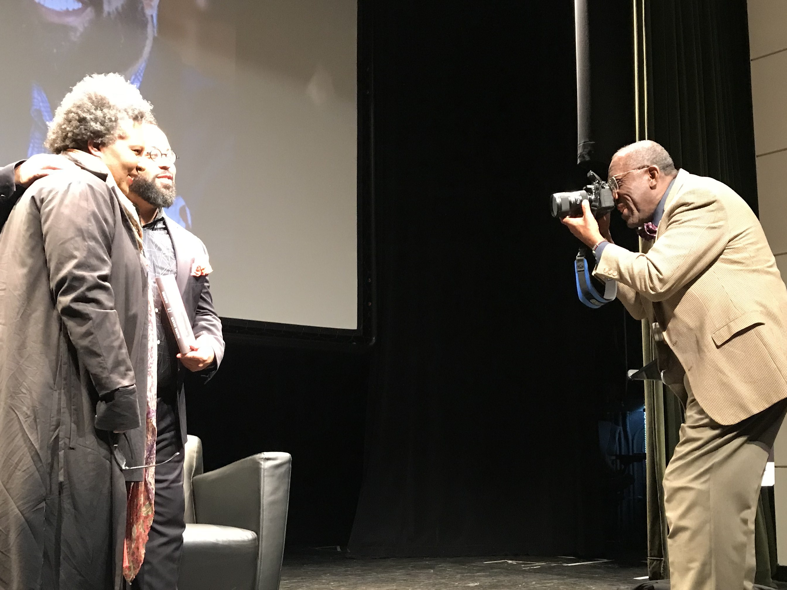 Schomburg Center staff photographer Bob Gore, photographs Kevin Young, Director of Schomburg Center and poet Claudia Rankin at a Schomburg Center Event